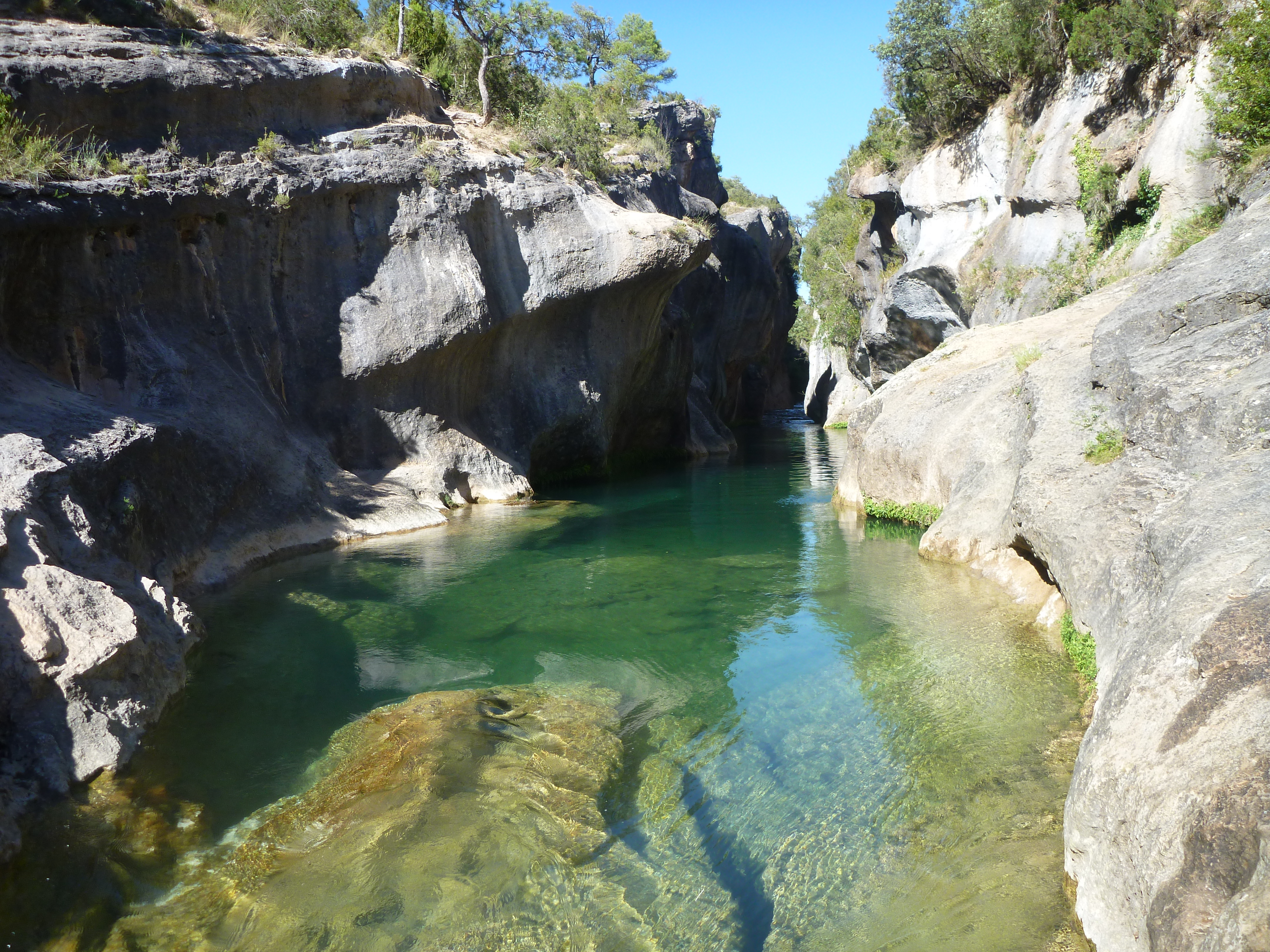 Las tranquilas aguas que parecen en la foto no tienen mucho de tranquilas... el agua está helada, y lleva mucha corriente, que te arrastra río abajo. Con neopreno, una perita en dulce. Tenemos que volver. Barranco de la Hoz del Júcar. Ventano del Diablo. Villalba de la Sierra (Cuenca).